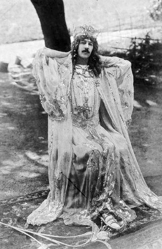 Henry Cyril Paget, 5th Marquess of Anglesey (1875–1905)